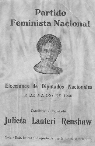 Argentine woman feminist, sufragist, and politician